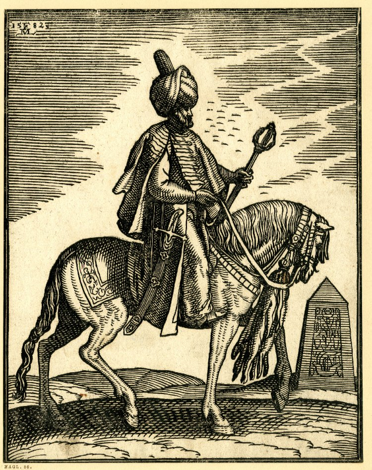 Ottoman Soldiers from contemporary European Illustrations by Melchior Lorck, 1570-83